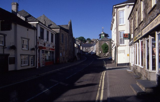 Camelford. Early morning in the centre of the Town